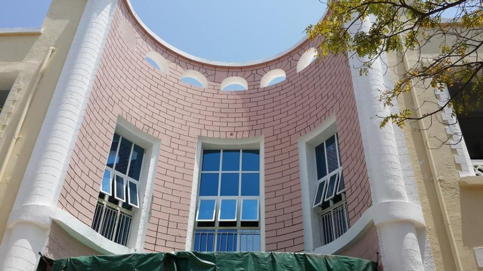 Mogadishu City University one of the famous universities in Somalia